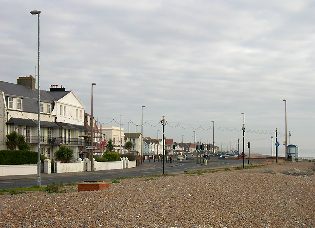 Brighton Road, Worthing, West Sussex This is the A259 coast road to Brighton, via Lancing, Shoreham and Hove. As can be seen, it is very vulnerable to inundation by sea and shingle during high tides and storms.